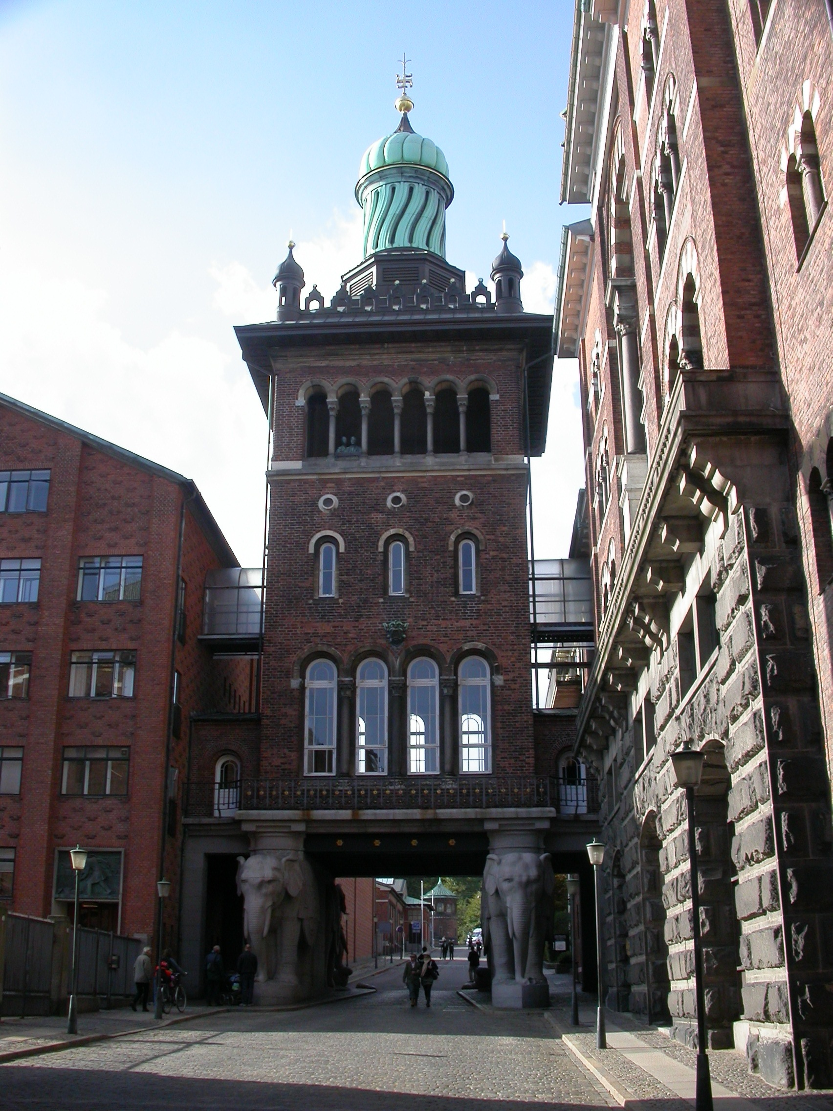 The Elephant Gate and Tower in the Carlsberg district of Copenhagen, Denmark